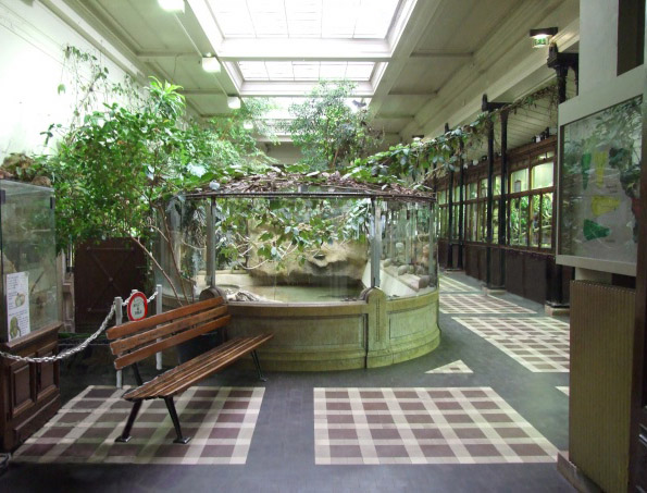 The herpetologic terrarium of the french Muséum National d'Histoire Naturelle, Paris